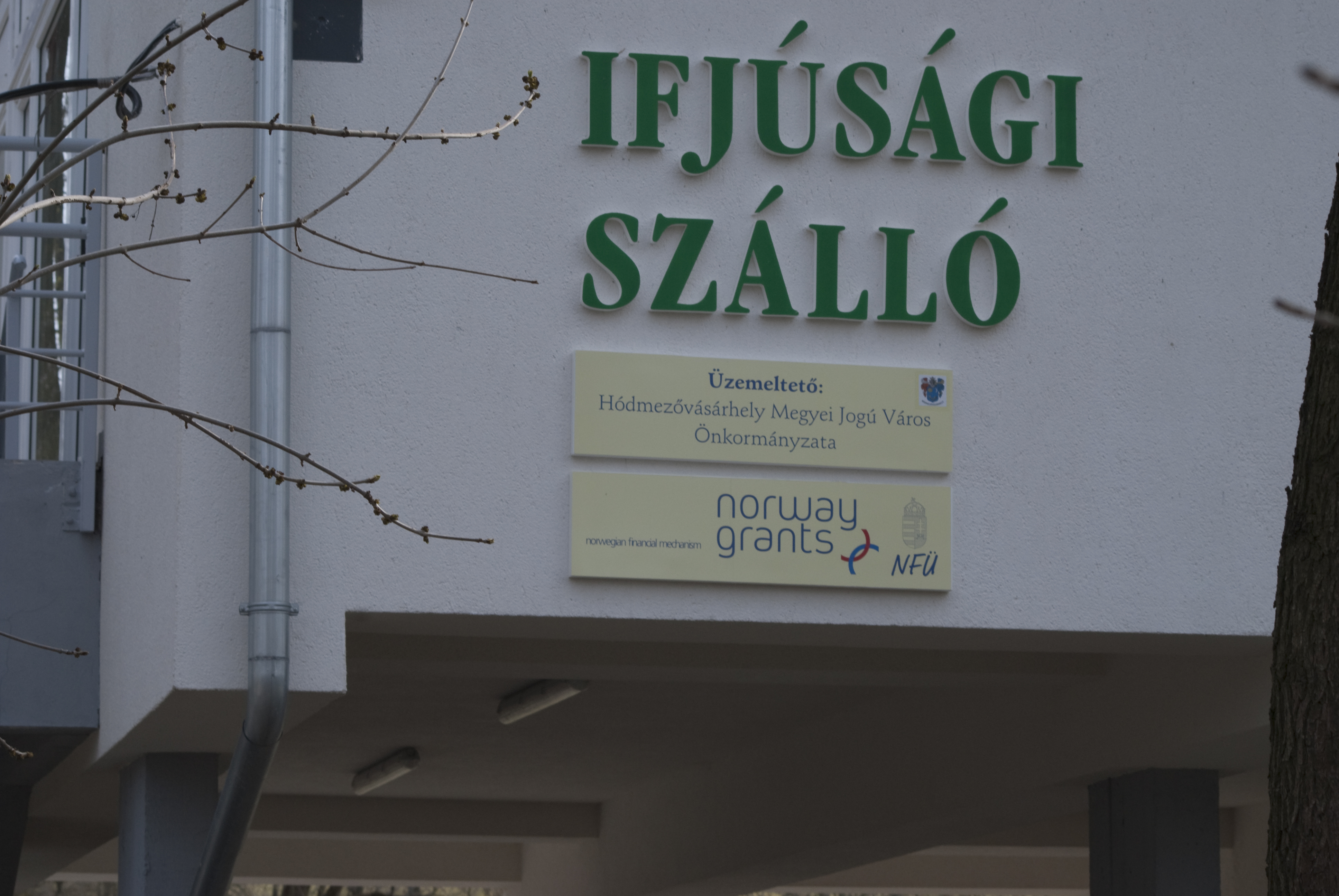 Environment Protection - Environmental Education: Establishment of a Regional Environmental Training Centre Project promoter: Municipality of Hódmezovásárhely with Rights of a County